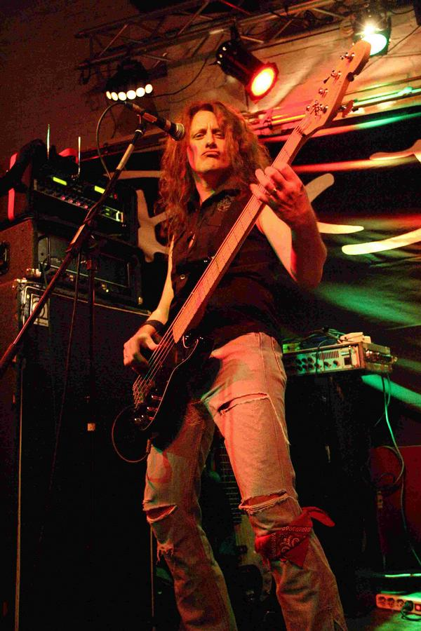 Picture of Jürgen Steinmetz